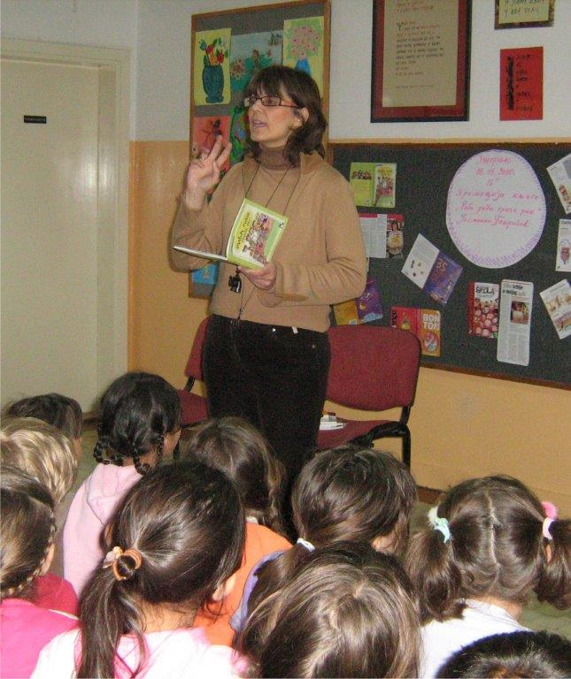 Jasminka Petrović, Serbian writer for children and youth. Workshop with children in the elementary school "Vlada Obradovic Kameni" in New Belgrade, Serbia